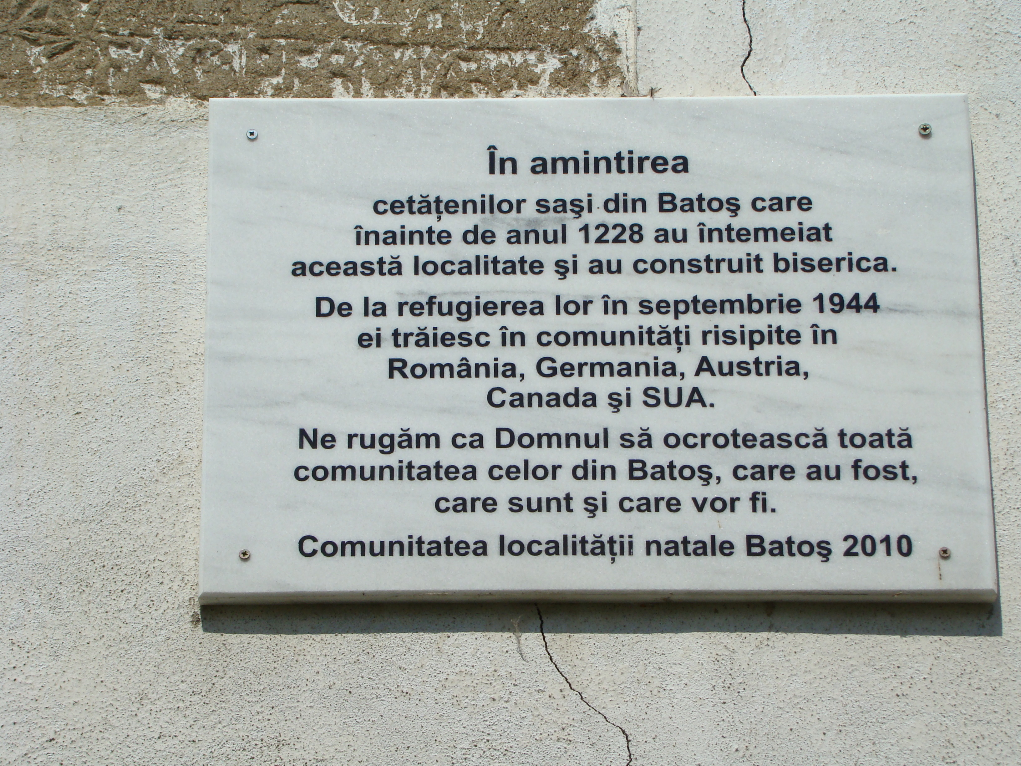 Lutheran church in Batoș, Mureş county, Romania